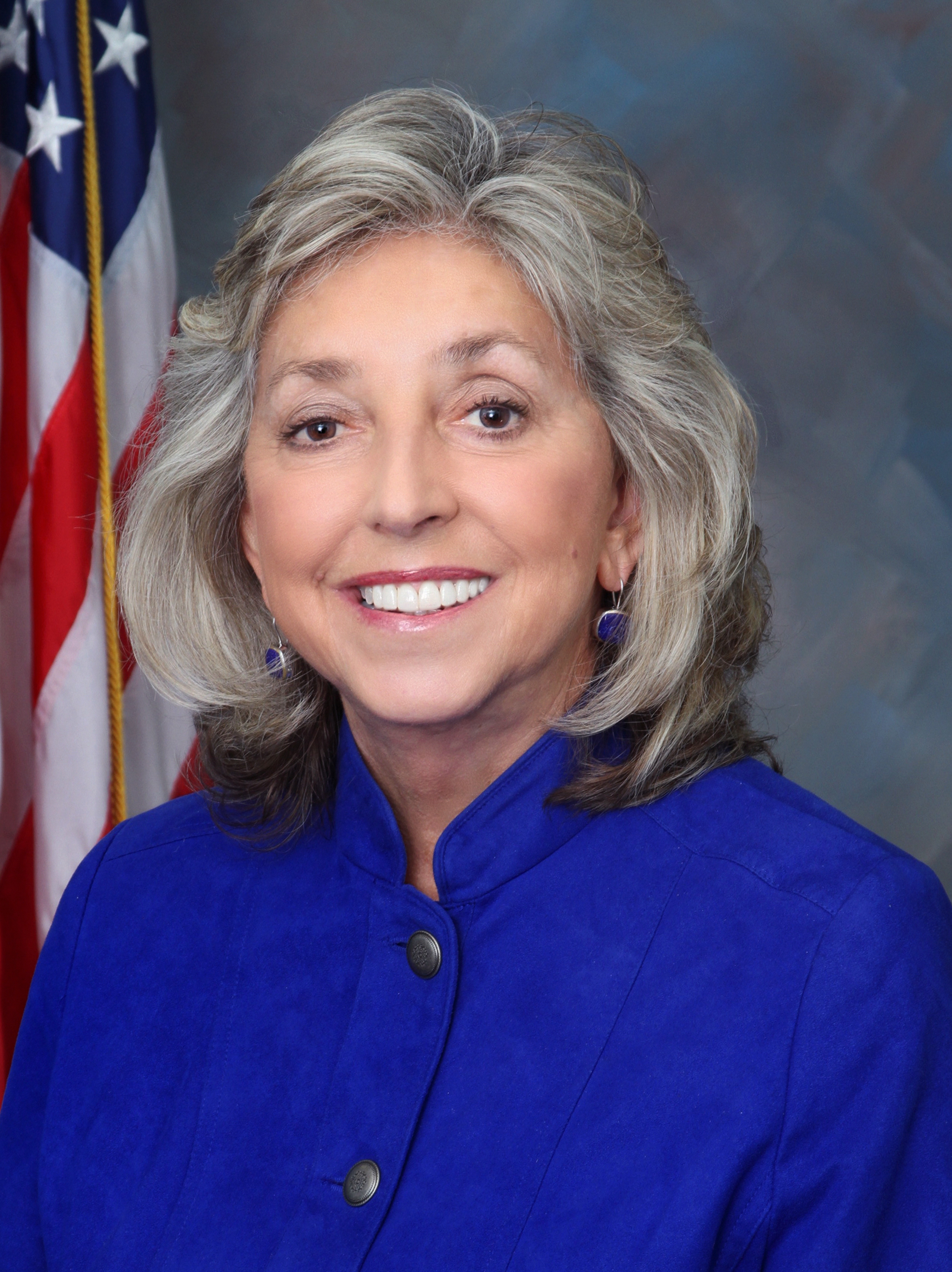 Dina Titus (D-NV) official photo